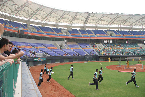 Description: Douliou Baseball Stadium Photographer: marioyang rationale: given permission 10:50, 26 December 2006 . . Kc0616 . . 500×333 (141,357 bytes)